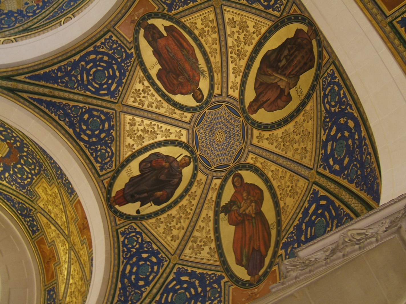 Ceiling painting in the Peace Palace (law courts), The Hague. • Clockwise from bottom-left: Themis and the Horae: Dike, Eunomia, Eirene